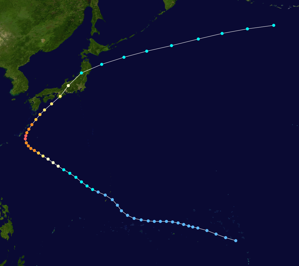 Typhoon Flo 1990 track. Uses the color scheme from the Saffir-Simpson Hurricane Scale.